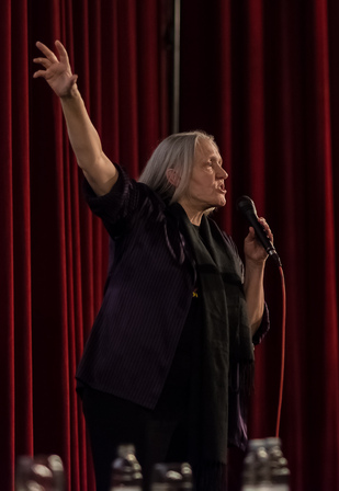 Saskia Sassen speaking on Subversive Festival 2012 in Zagreb.